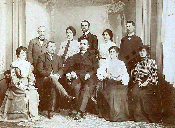 Bitolya Bulgarian High School Teachers - Director Naum Temchev, Toykova, Nikola Garkov,_Ladeva